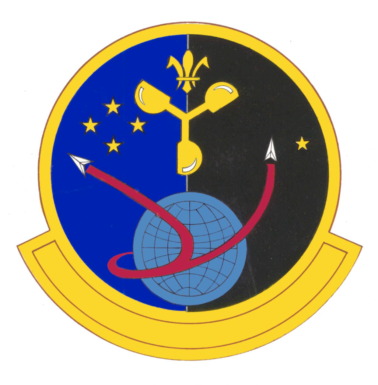 45th Weather Squadron emblem